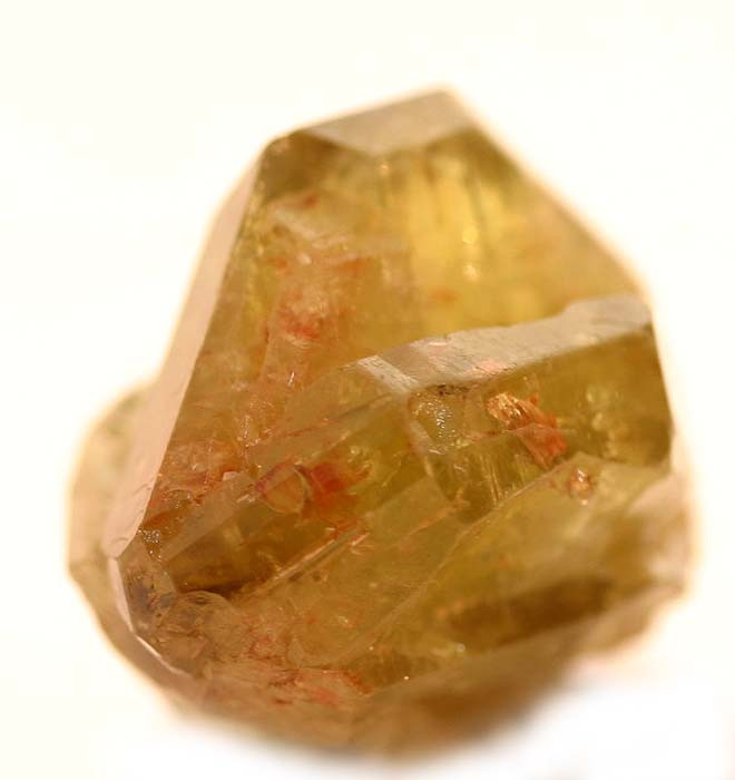 Chrysoberyl Locality: Espírito Santo, Southeast Region, Brazil (Locality at ) This large gem chrysoberyl “fourling” is complete and undamaged all around! It is actually a sixling twin, with two underdeveloped spokes on teh bottom that leave it laying flat and displaying the other "spokes" like a starship. It is MUCH prettier in person – just very hard to photograph. There are lustrous faces all the way around the specimen. 2.5 x 2.2 x 1.7 cm